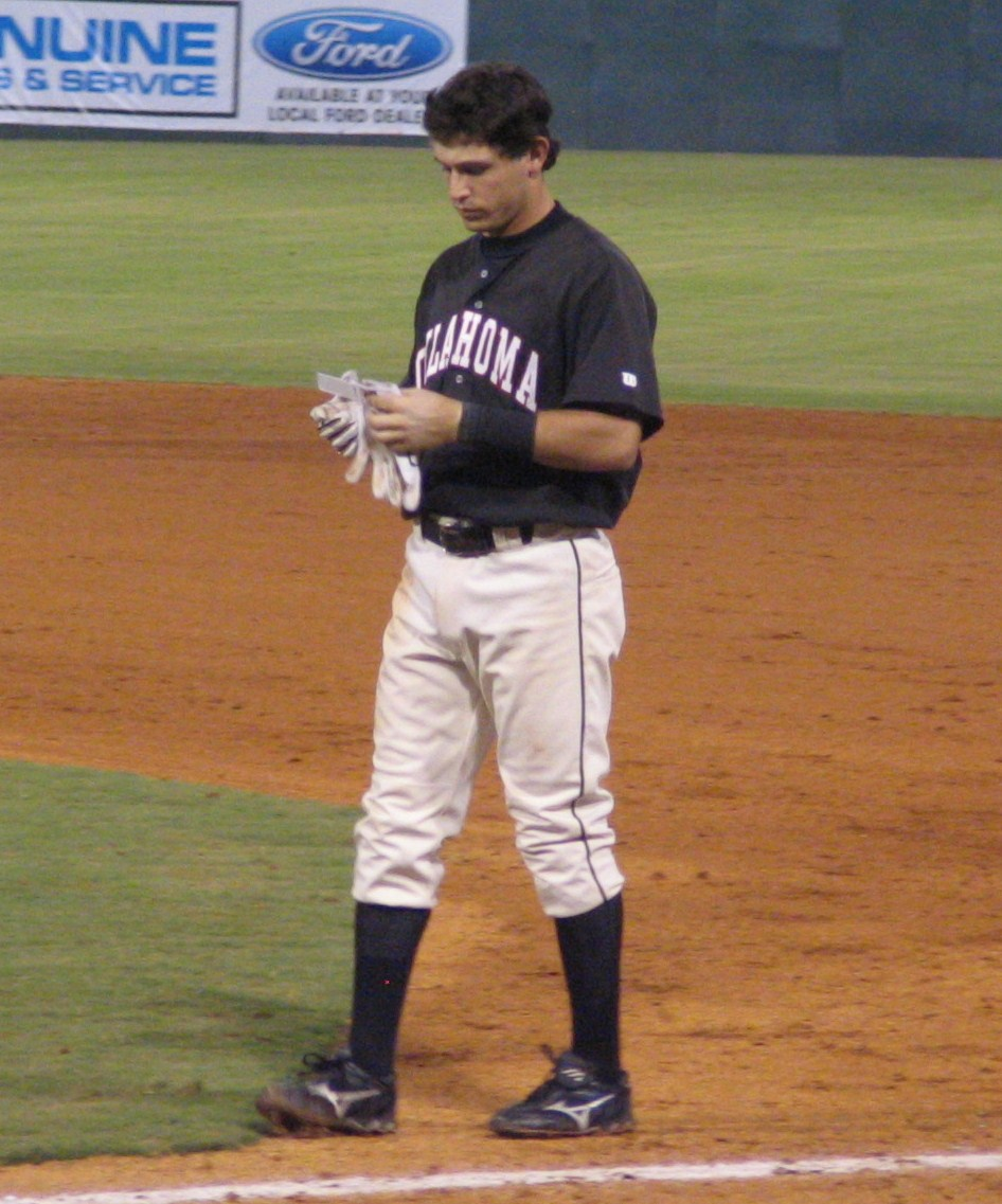 Ian Kinsler